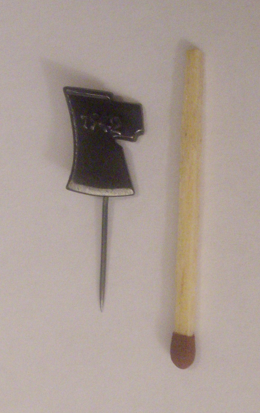 This "iron axe" (rautakirves in Finnish) medal was granted to the participants of voluntary wood cutting campaign in Finland during 1942 (Continuation War). One cubic metre of fire wood was worth of this medal. There was also another medals of this kind granted for continued participation to the campaign.